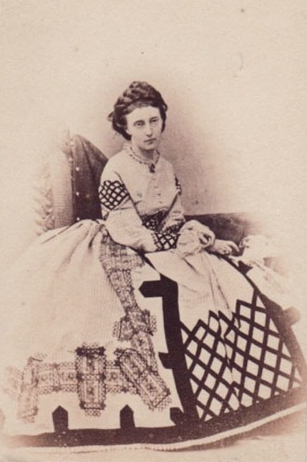 Queen Olga of Württemberg (1822-1892), nee Grand Duchess of Russia